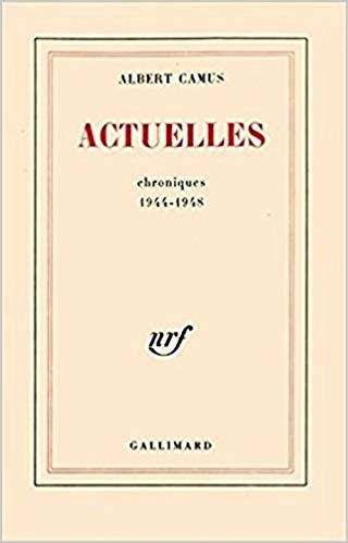 Albert Camus: Actuelles - Chroniques: 1944-1948